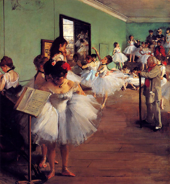 The imaginary scene is set in a rehearsal room in the old Paris Opéra—a poster for Rossini's "Guillaume Tell" is on the wall beside the mirror—even though the building had just burned to the ground.